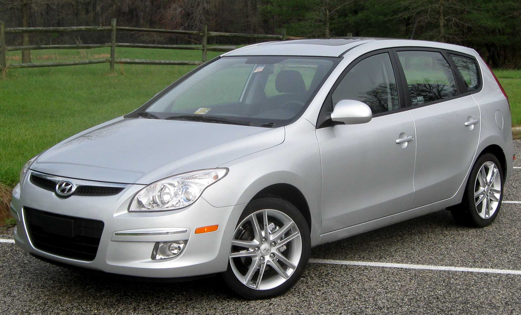 2009 Hyundai Elantra Touring photographed in Beltsville, Maryland, USA.